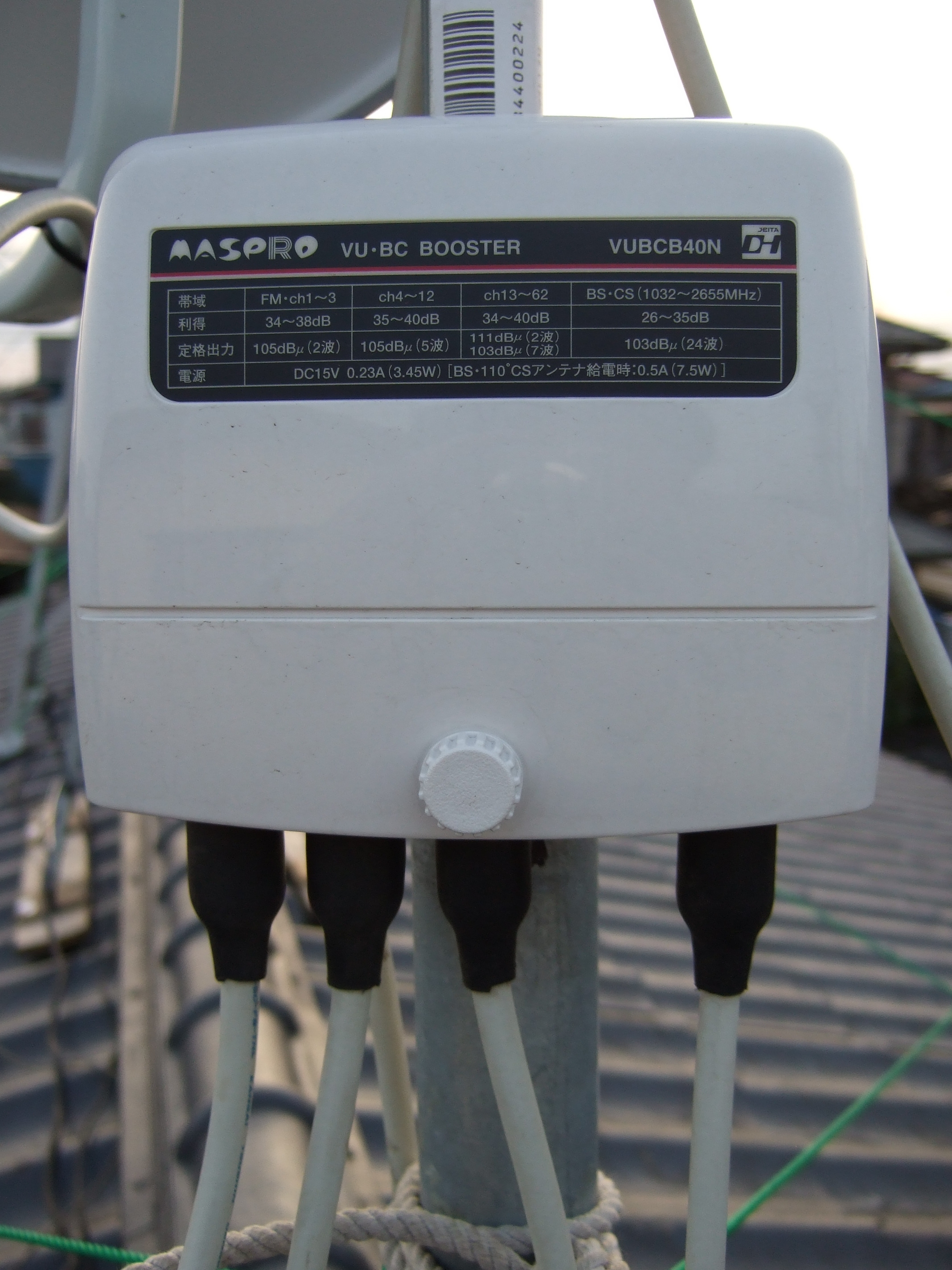 An RF preamplifier for VHF (FM radio and television), UHF television and satellite television (BS & CS) for Japan wich amplifies each RF signal, then mixes each RF signal and outputs to one coaxial calble. Power DC 15 V is supplied from the signal output coaxial cable from a TV set, a Blu-ray recorder, a power module equipped with the preamplifier or others. Maspro Denkoh Corp. VUBCB40N.